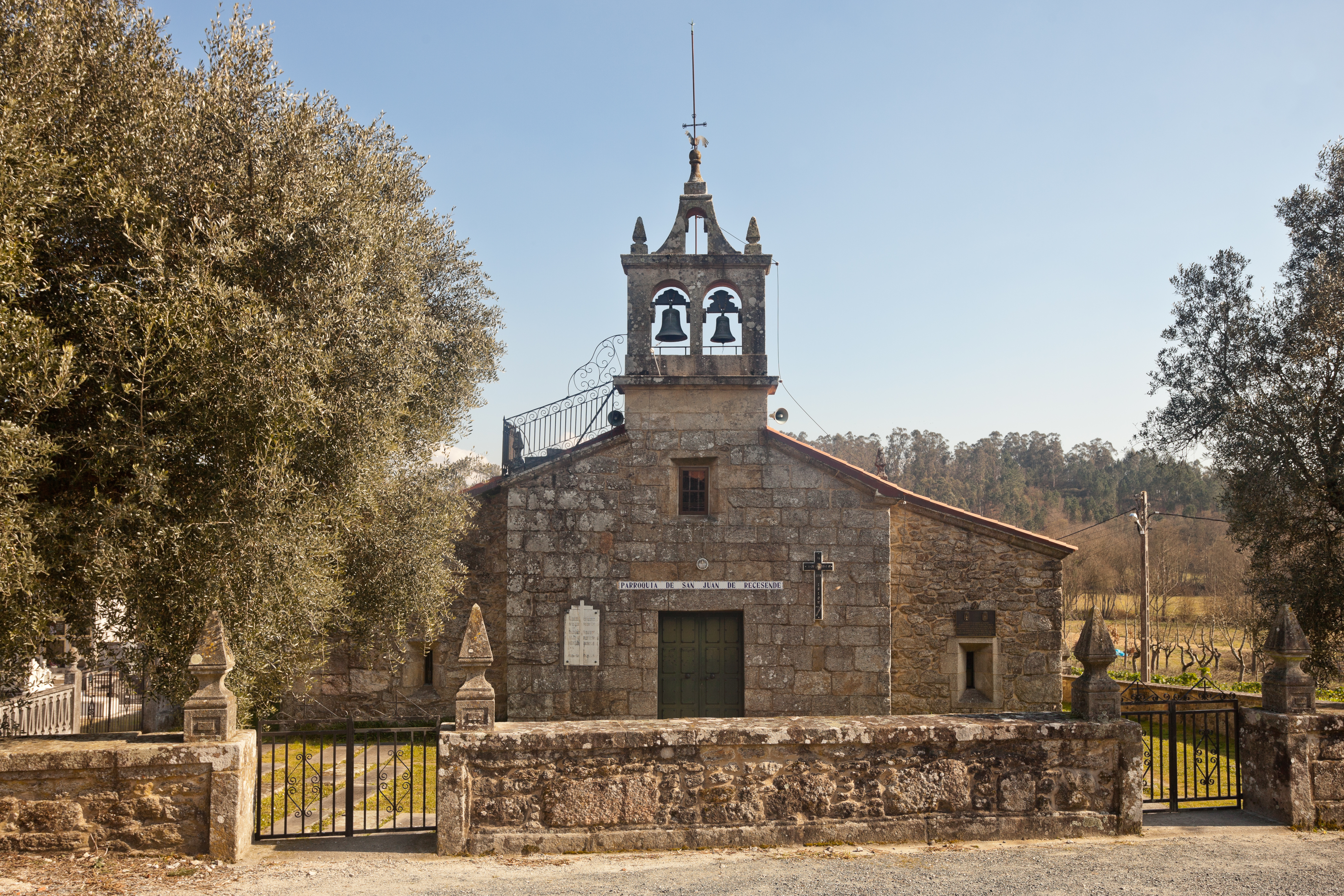 Church of Recesende, Teo, Galicia, SpainGalego: Igrexa de San Xoán de Recesende, Teo, Galiza